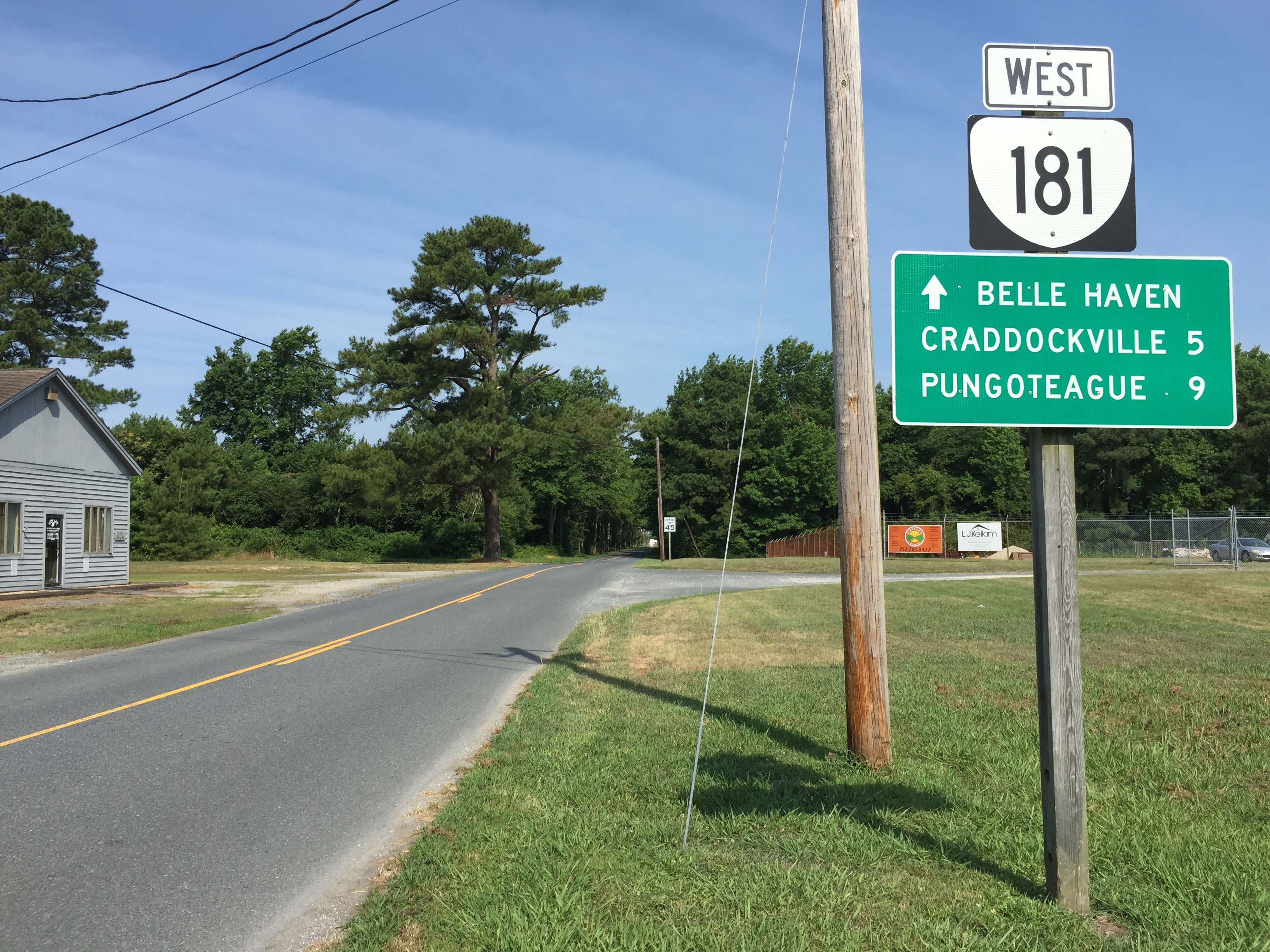 View west along Virginia State Route 181 (King Street) at U.S. Route 13 (Lankford Highway) in Belle Haven Station, Accomack County, Virginia